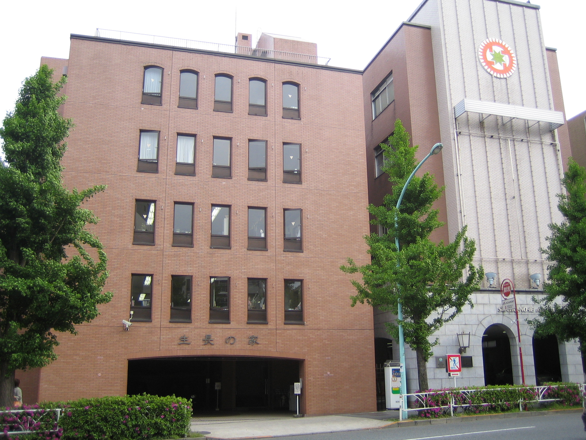 Seicyo-No-Ie (生長の家), in Shibuya, Tokyo, Japan